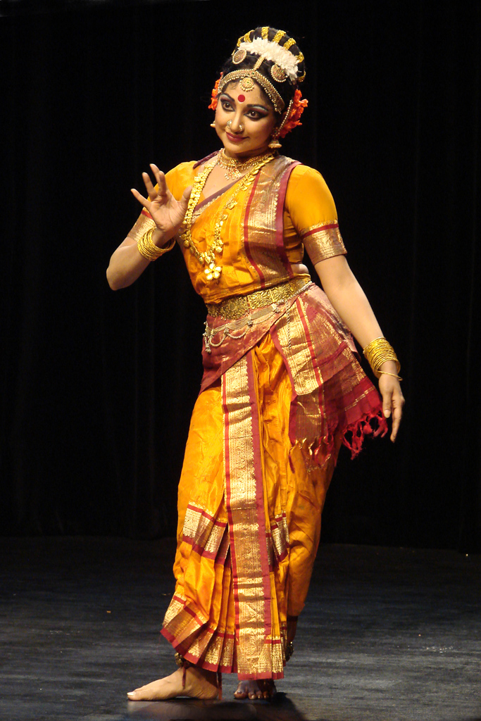 Indian Dancer of Kuchipudi.